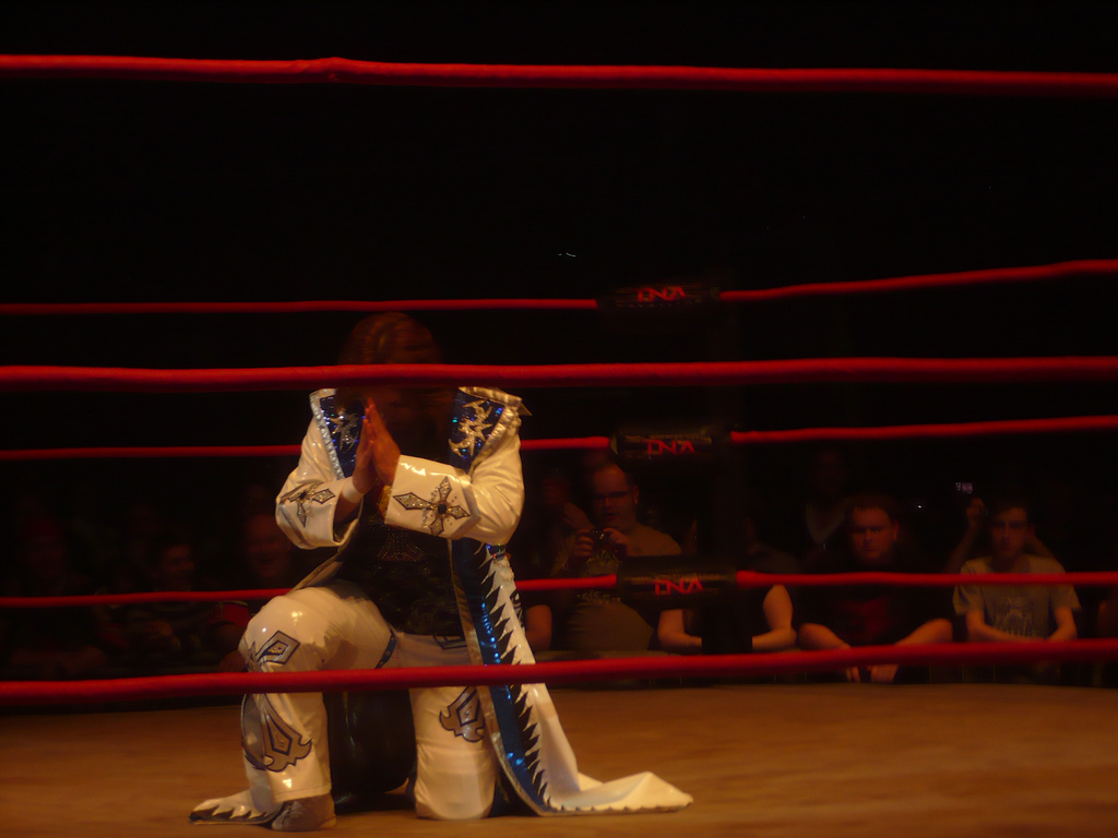 TNA wrestling Knockout Ayako Hamada